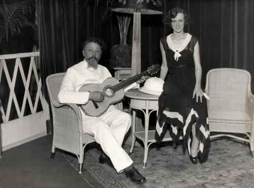 J.H. (Koos) Speenhoff with daughter Ceesje and guitar. City theater in The Hague, November 14, 1930.